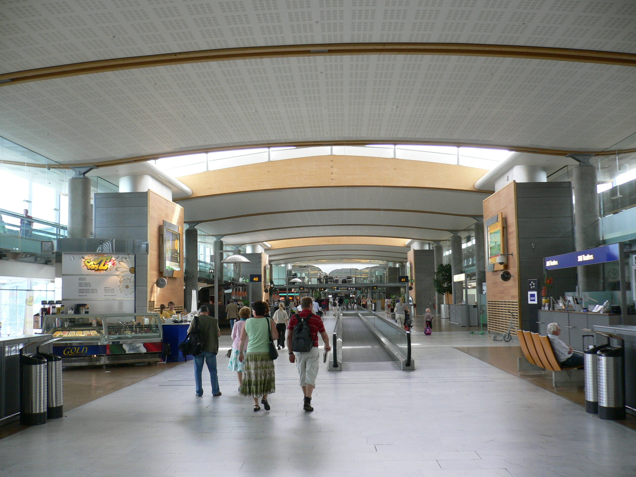 From Oslo Airport Gardermoen